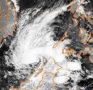 A satellite image of Tropical Storm Greg, which crossed the northern part of Borneo on 25 December 1996, causing 127 deaths, 100 missing people, and extensive property damage from torrential flooding.